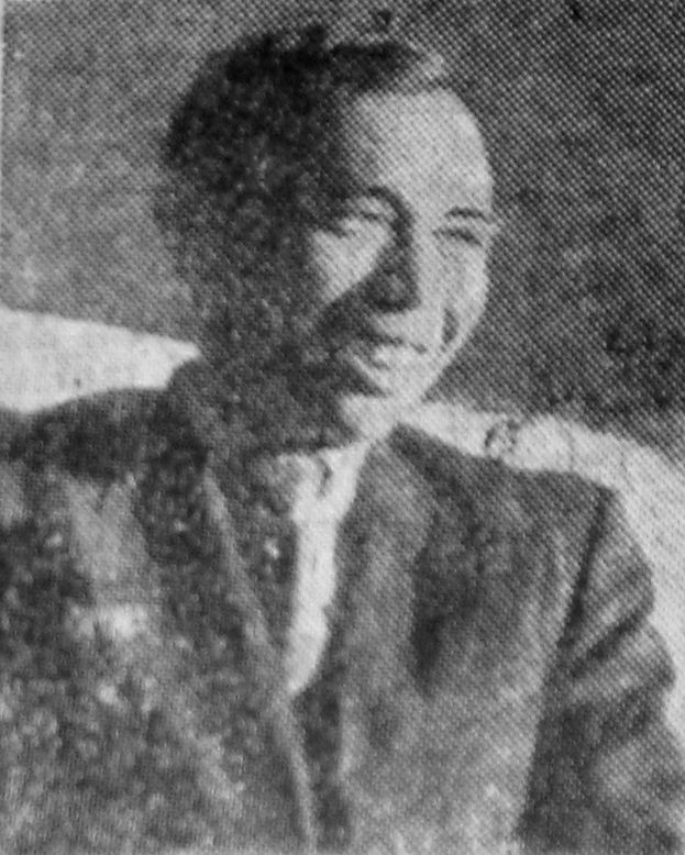 Portrait of Semaun